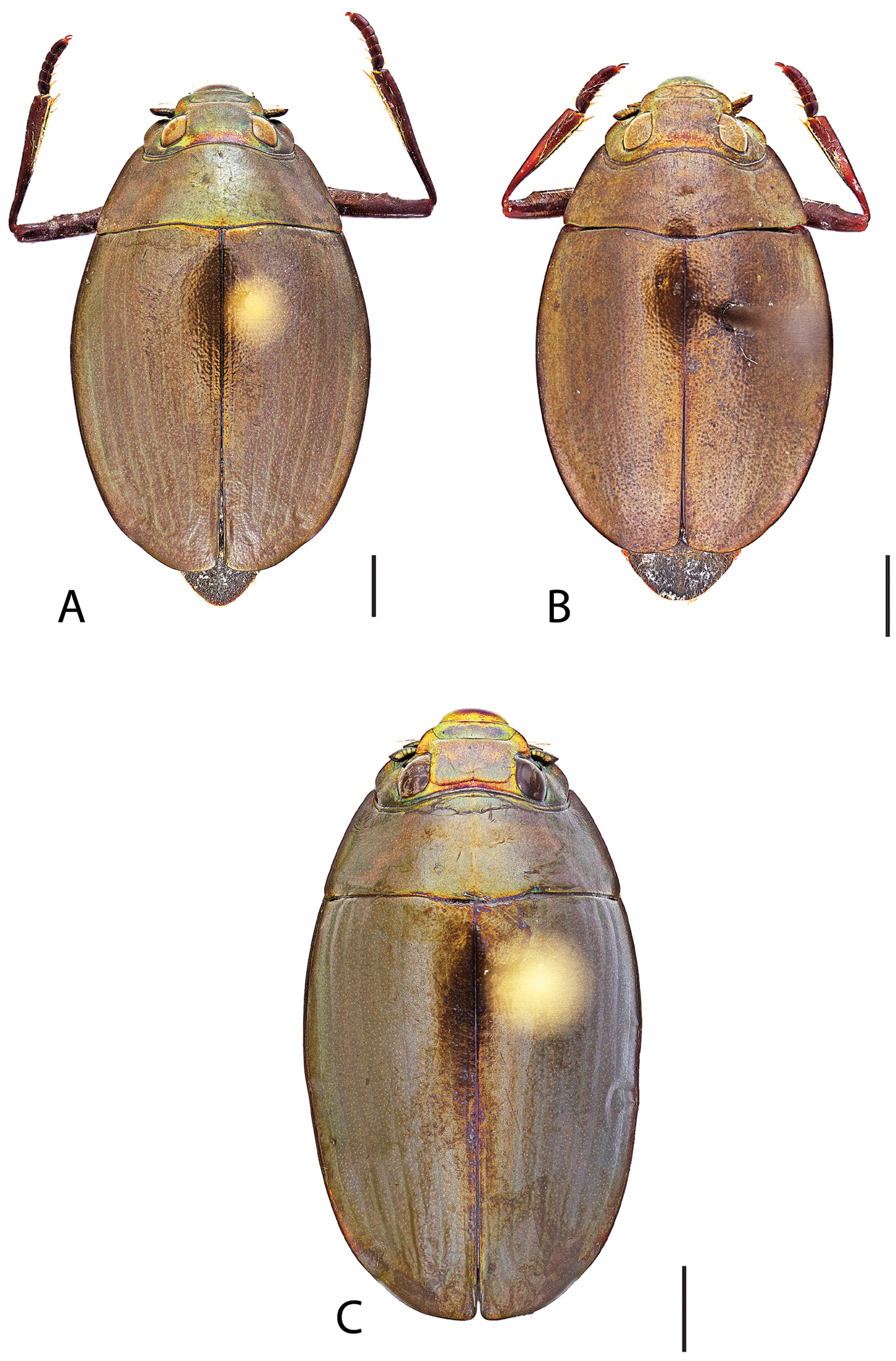 Variation in specimens from Sierra de Zapotan, Narayit, Mexico. (A) Male D. sublineatus dorsal habitus, (B) male D. solitarius male dorsal habitus. Female D. sublineatus from Salaman Guatemala (C) dorsal habitus. All scale bars ≈ 2 millimetres (0.079 in).